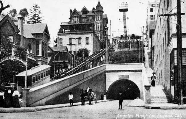 L.A.'s famous funicular railway, Angels Flight, in 1903 Angels Flight funicular railway, Bunker Hill, Los Angeles, California